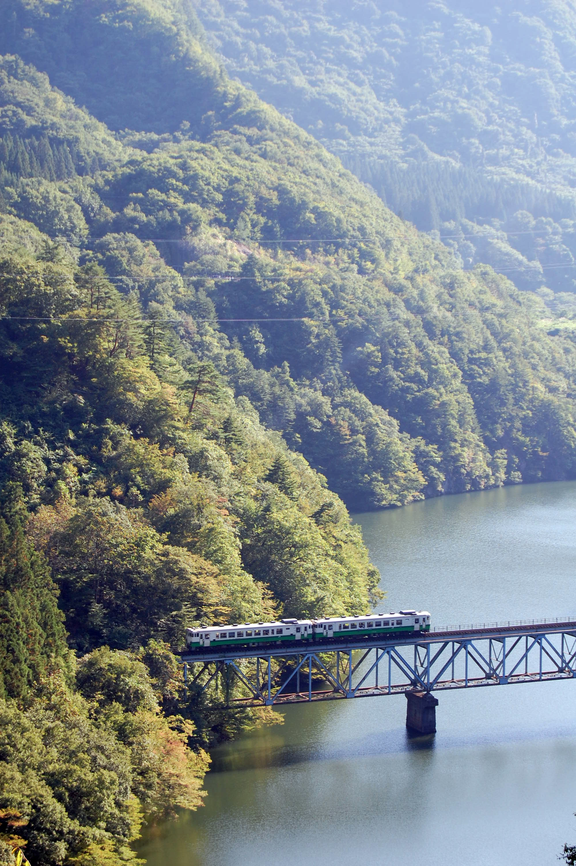 The No.3 bridge of the Tadami Line, located in Mishima, Fukushima, Japan.